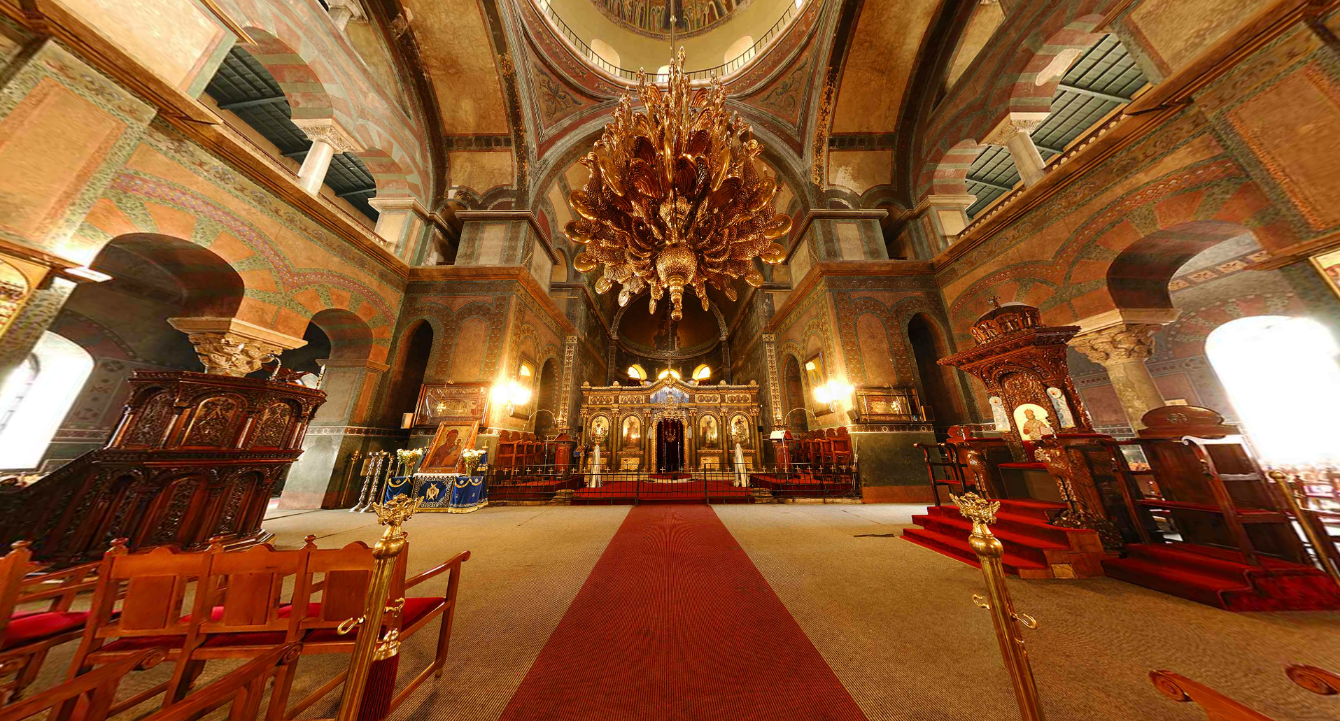 It's the interior of Haga Sophia in Thessaloniki